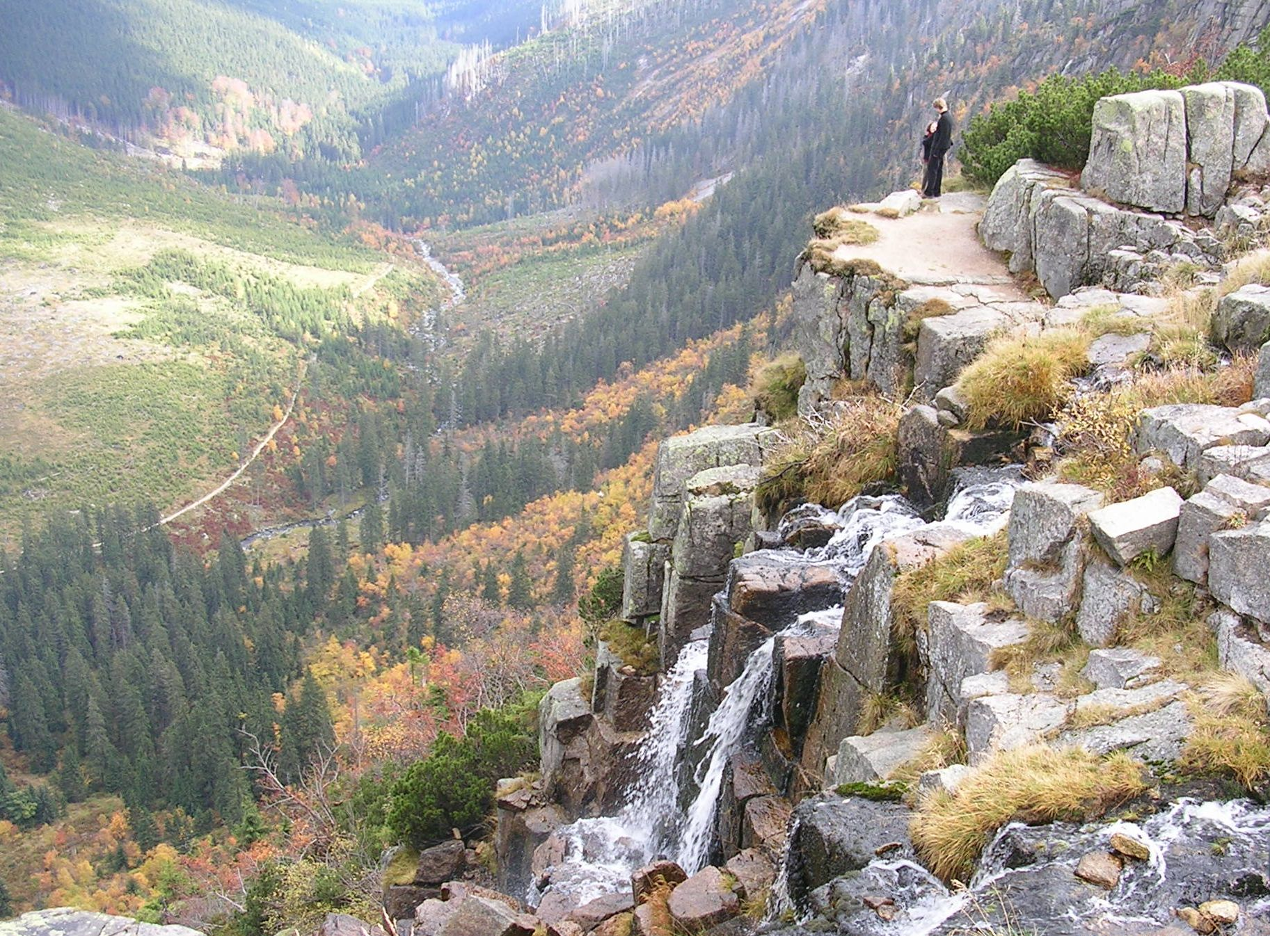 The Pančava waterfall. A view from trail between Vrbatova bouda and Labská bouda, the Czech Republic.